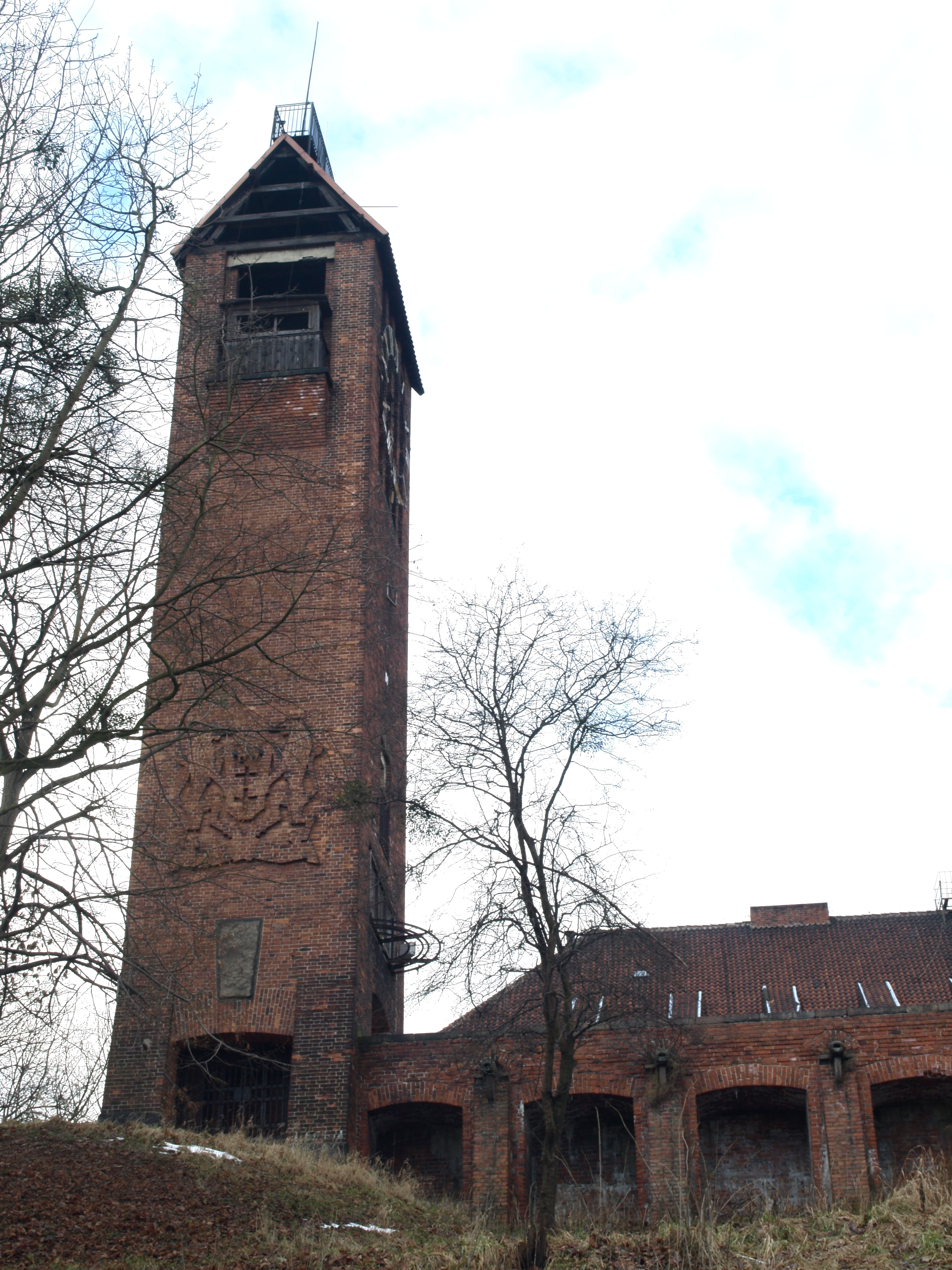 Tower of old Hitlerjugend hostel in Gdansk